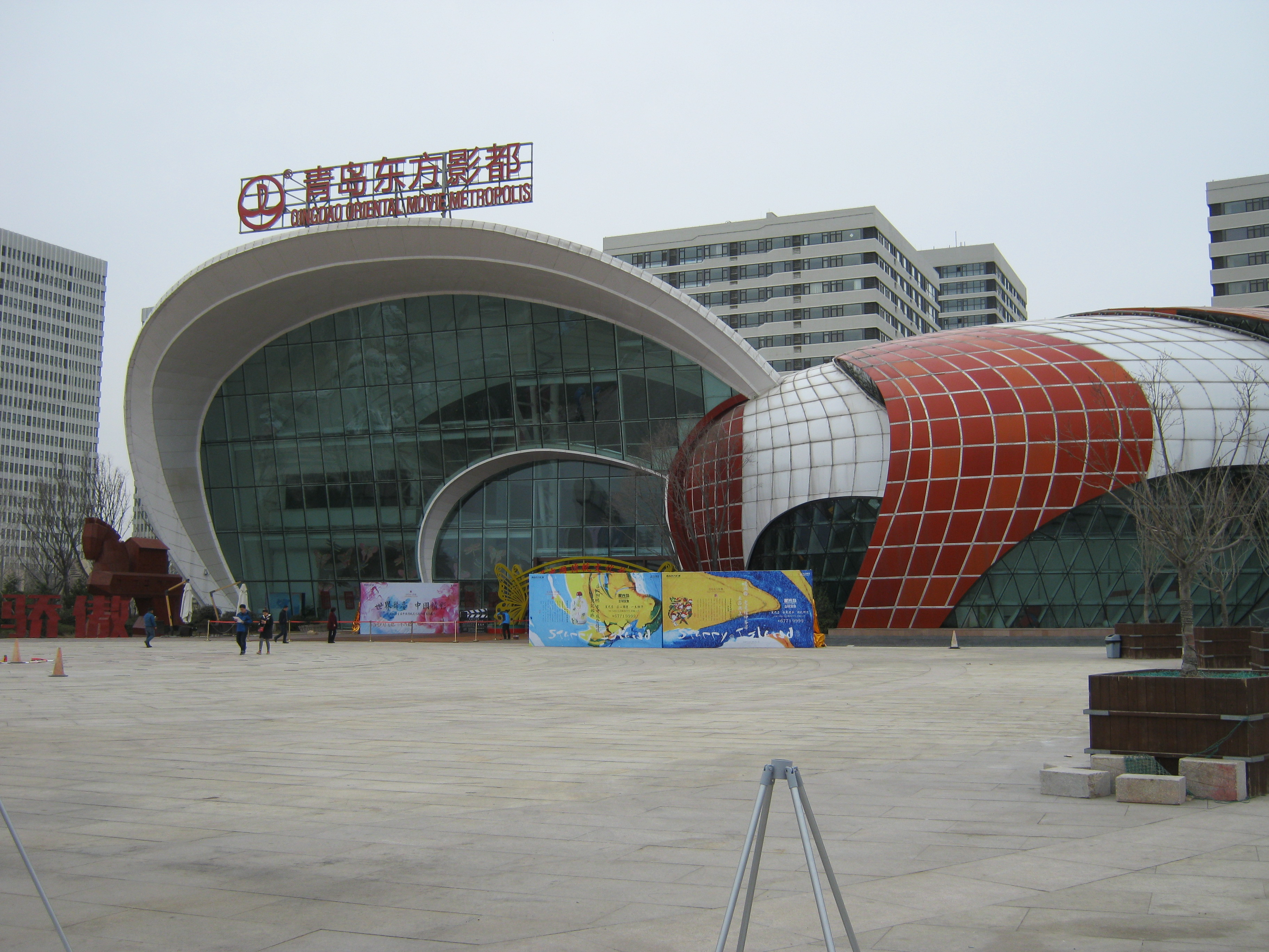 QINGDAO DONGFANG YINGDU